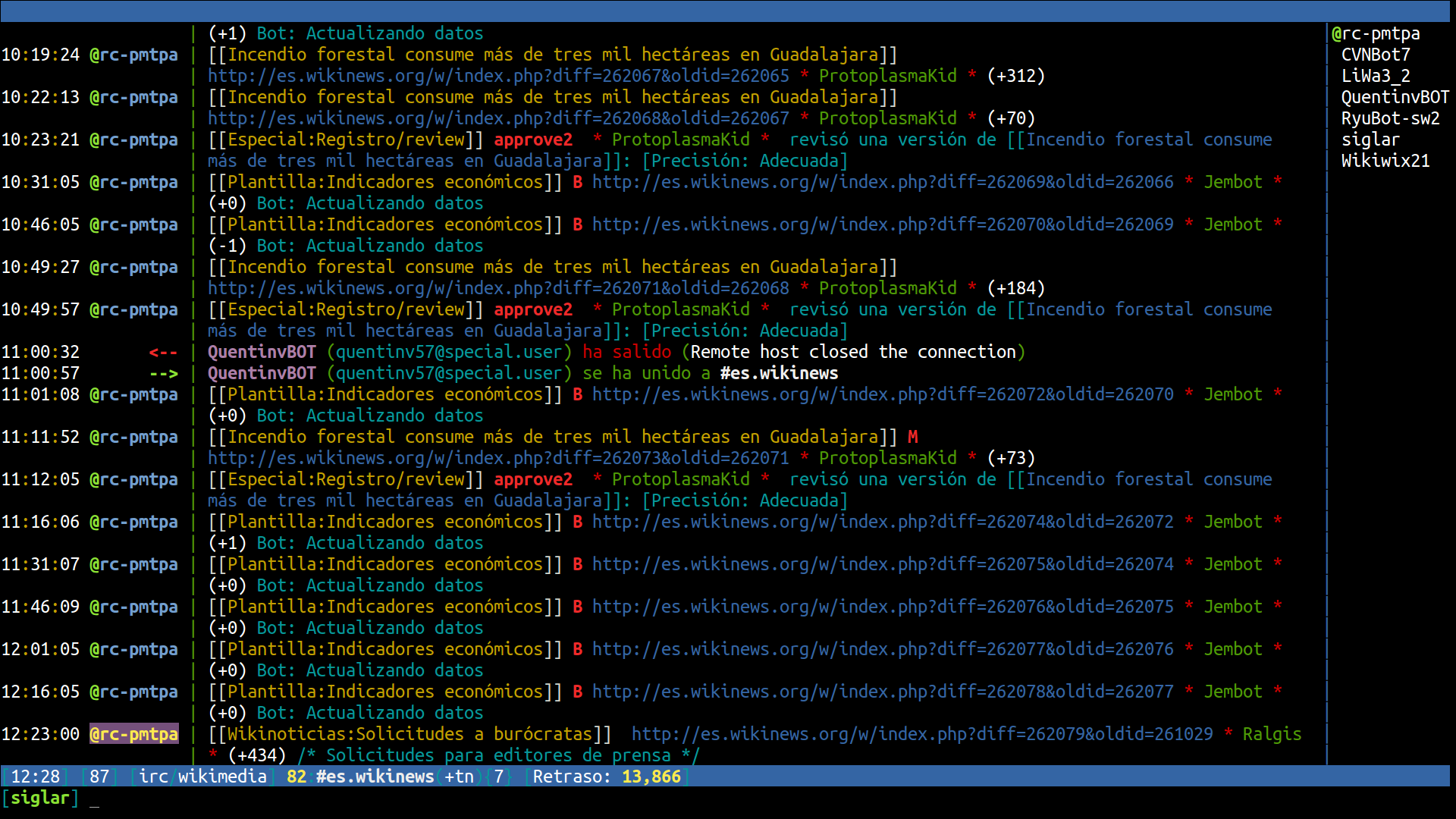 WeeChat 0.3.5 sampling #es.wikinews at